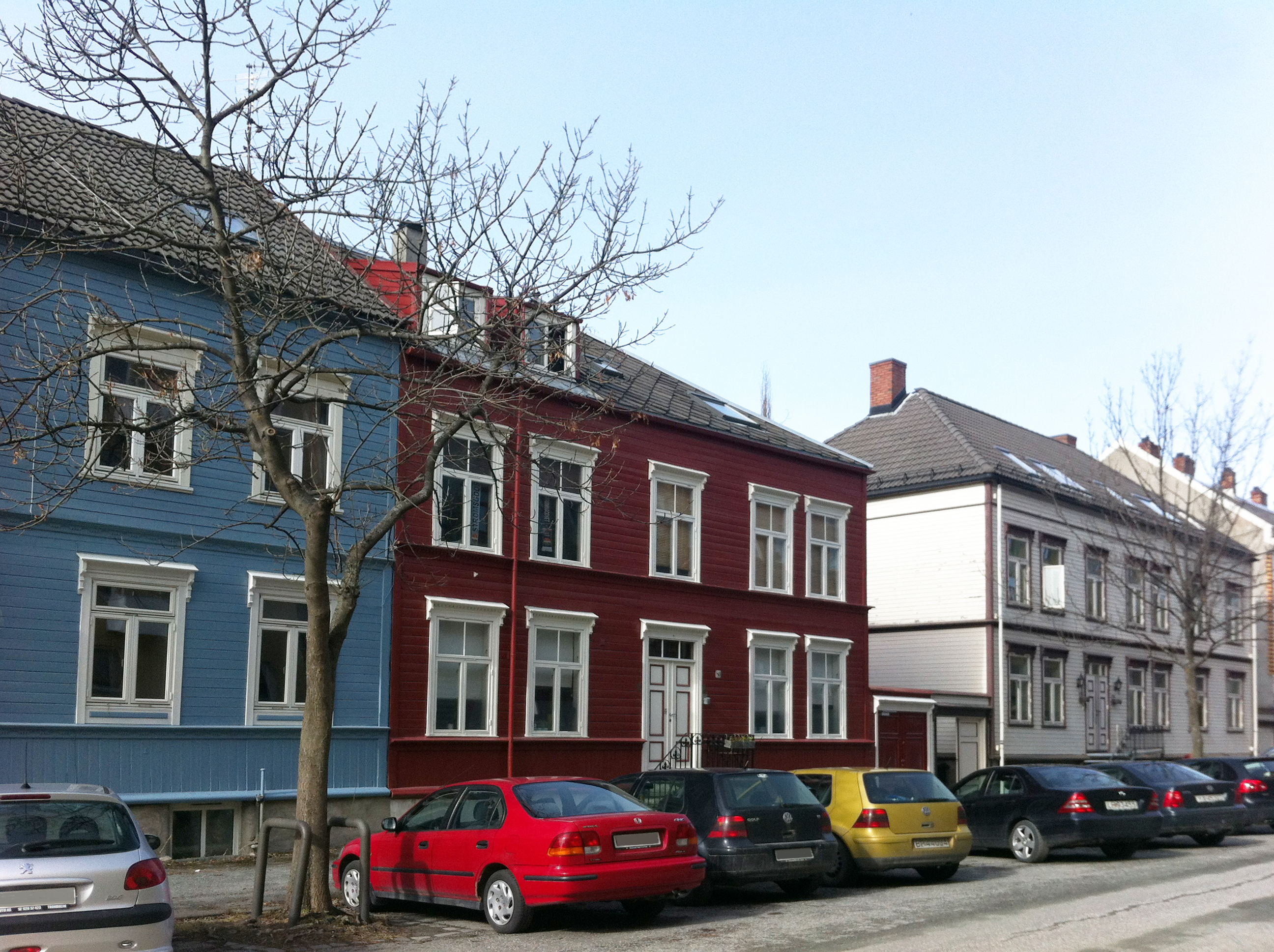 Traditional wooden buildings in Møllenberg, a part of Trondheim, Norway. Most of the buildings were erected around 1900.